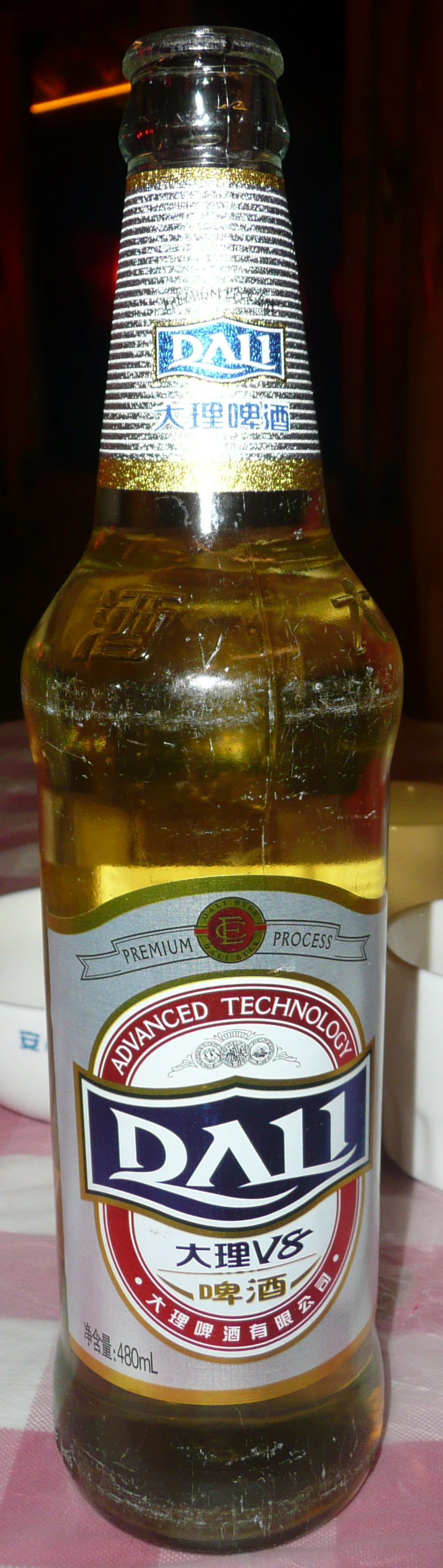 Dali beer bottle - Carlsberg brewery in Dali